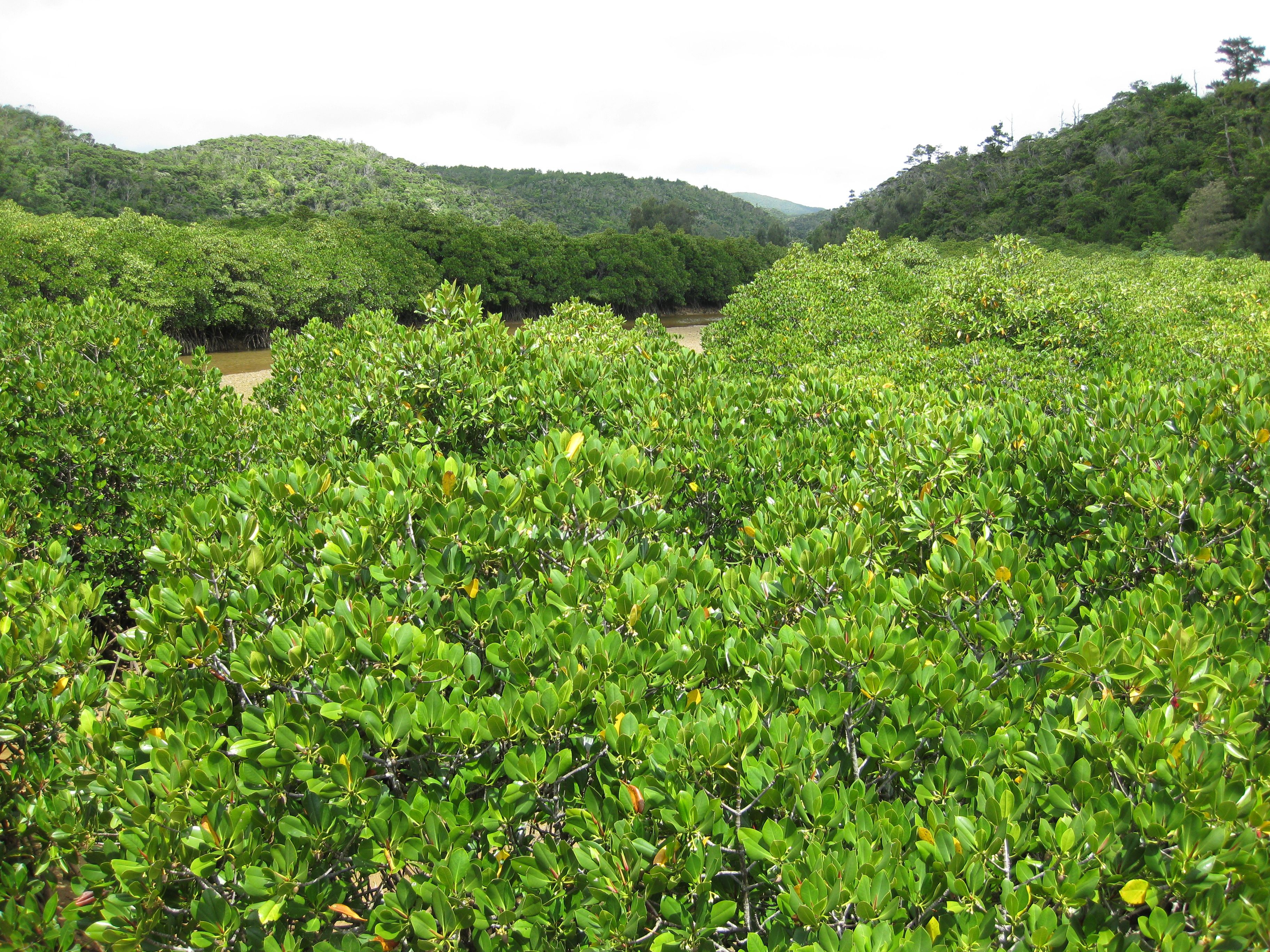 Mangrove of Gesashi Bay in Okinawa, Japan